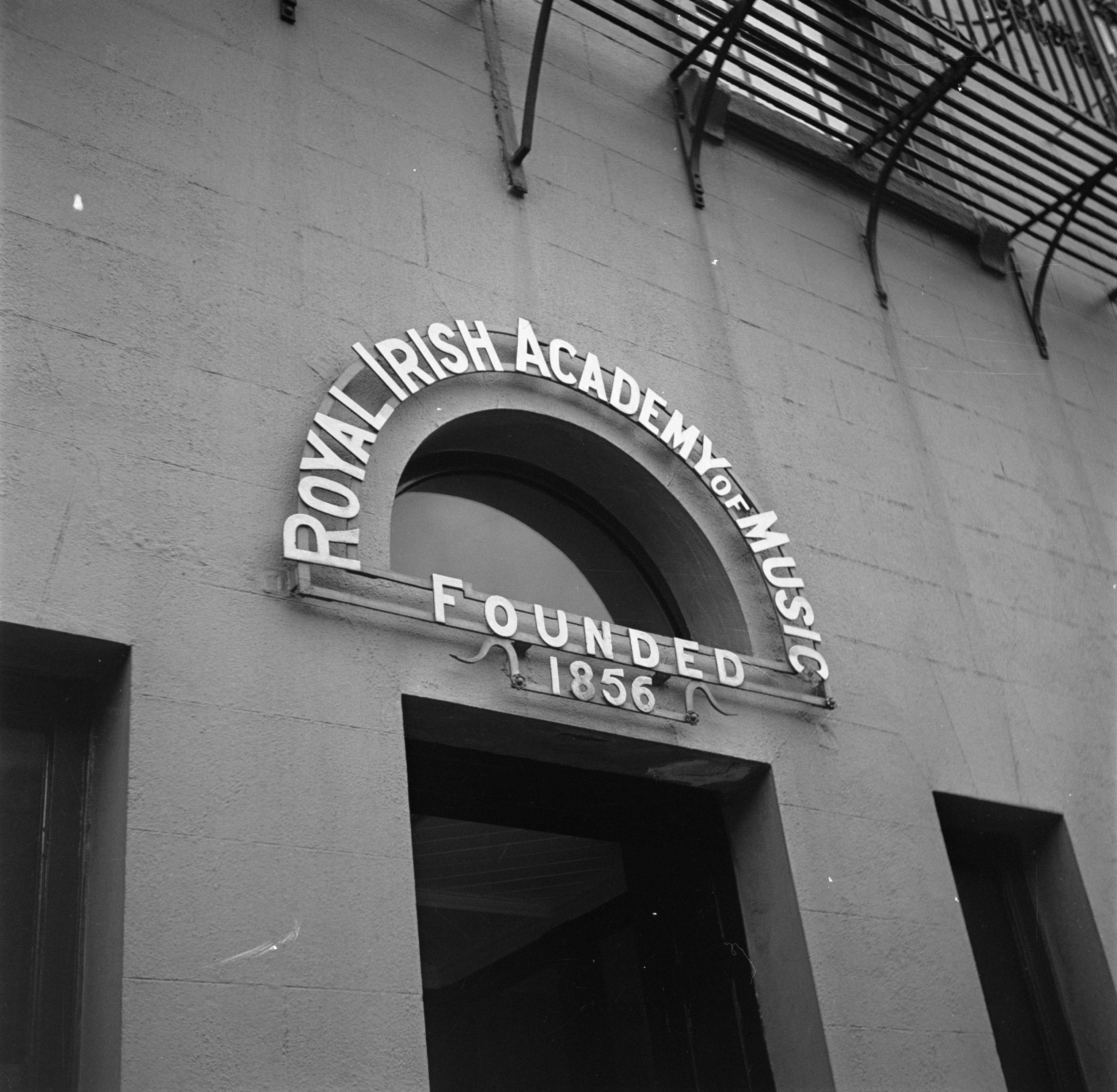 Royal Irish Academy of Music doorway, Westland Row, Dublin